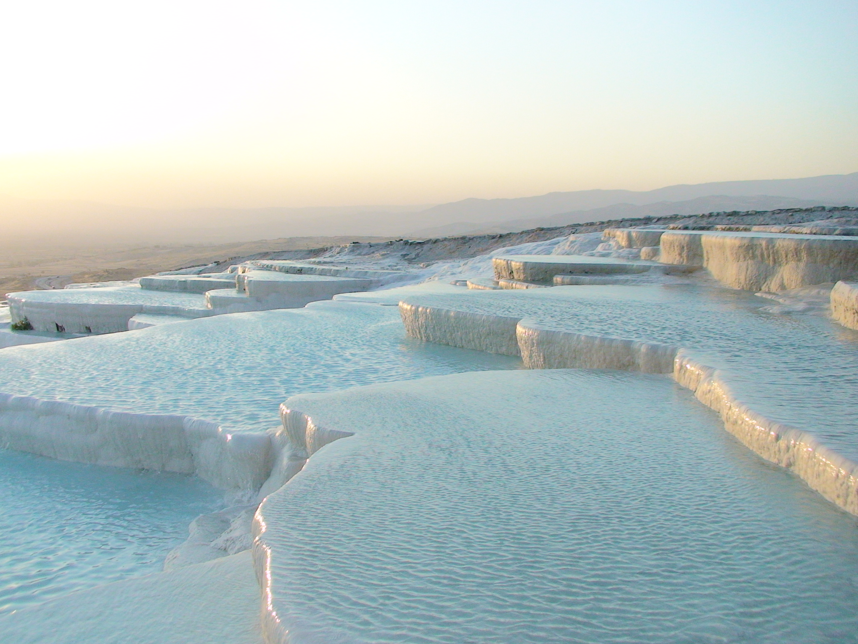 Travertine covered pools at Pamukkale, Turkey.